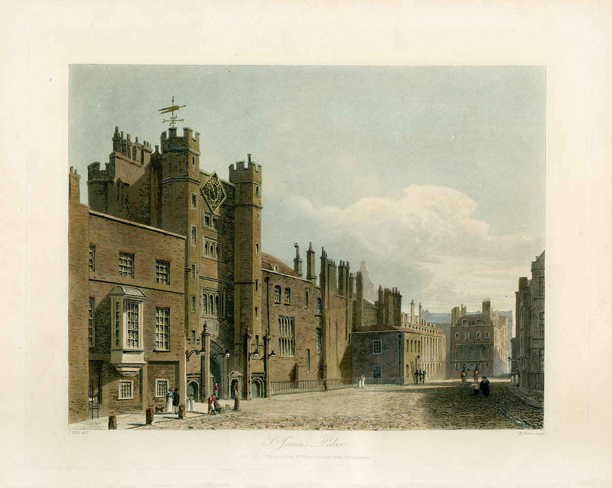 The main entrance of St James's Palace in London